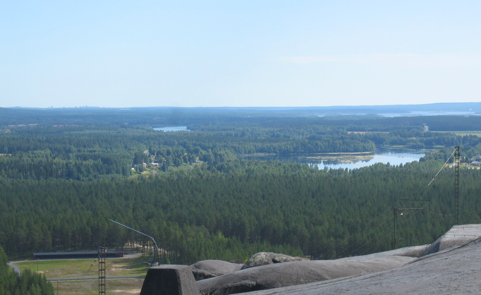 The view if looking southwest from Rödberget fort, part of Boden Fortress. A shooting range and Lule river are clearly visible, and the silhouettes of buildings to the left in the horizon are industries in Luleå some 30 km away.